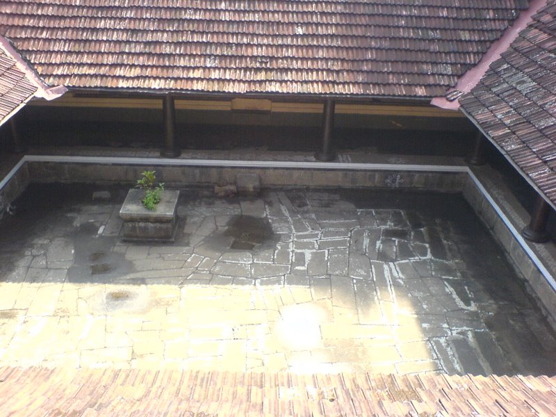 Varikkasseri Nadumuttam